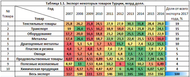 Sturcture of turkish exports